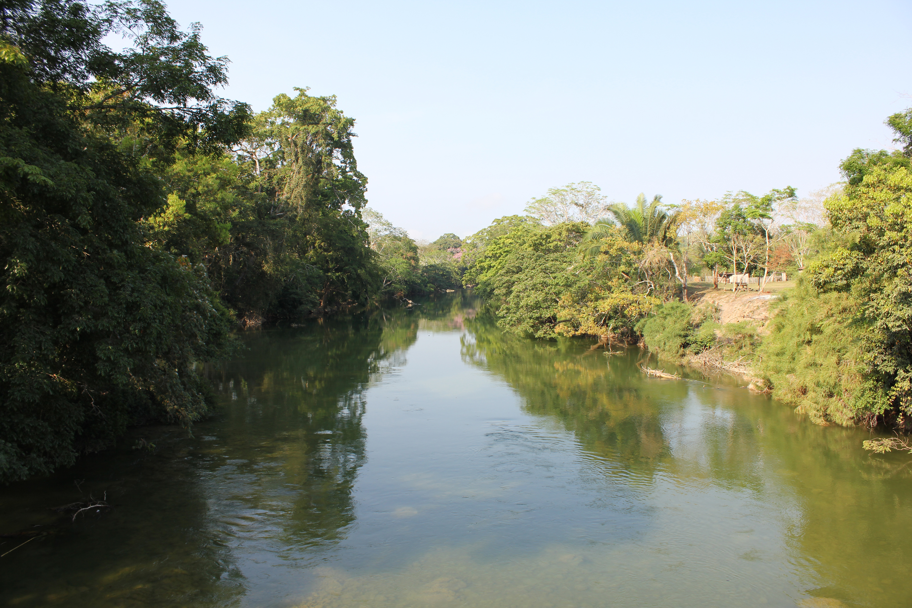 The Mopan River as seen from the Salvador Fernandez Bridge in Bullet Tree Falls, Belize